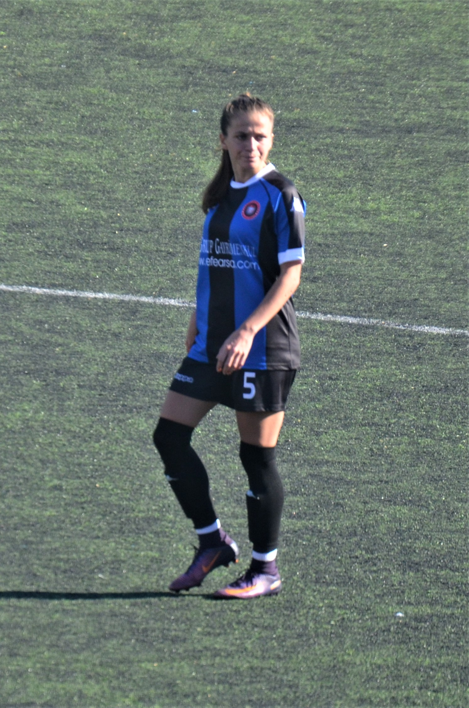 Yeliz Açar of Fatih Vatan Spor in the 2018-19 Turkish Women's First League.